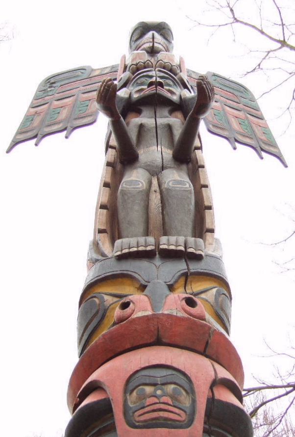 Heraldic stake, work of Tony Hunt in the Rheinaue Leisure Park in Bonn.